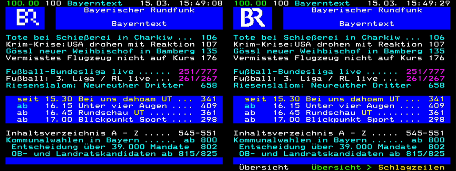 Comparison between Teletext Level 1.0 and Teletext Level 2.5 on German channel BR